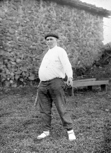 Palankari, basque lever throwing man.